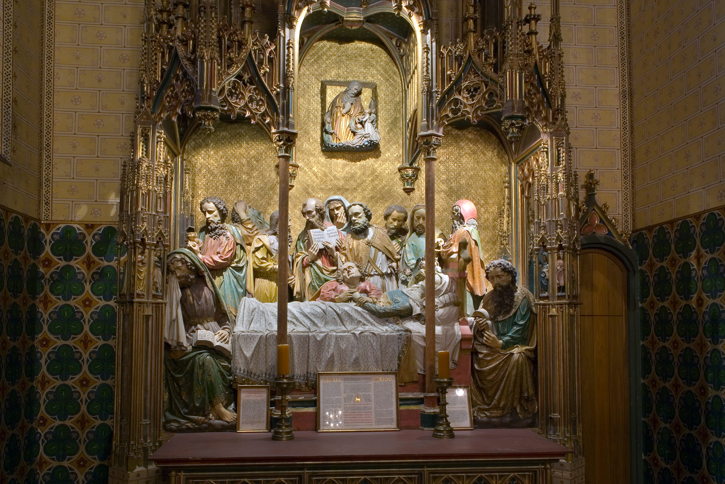 Maria-Schlaf-Altar im Kaiserdoms St. Bartholomäus in Frankfurt am Main. Selber fotografiert im Februar 2008, Doppellizensierung GFDL & CC-BY-SA 2.5. Reshot version of the original Image:Mk Frankfurt Dom MariaSchlaf.jpg uploaded by User:Magadan.